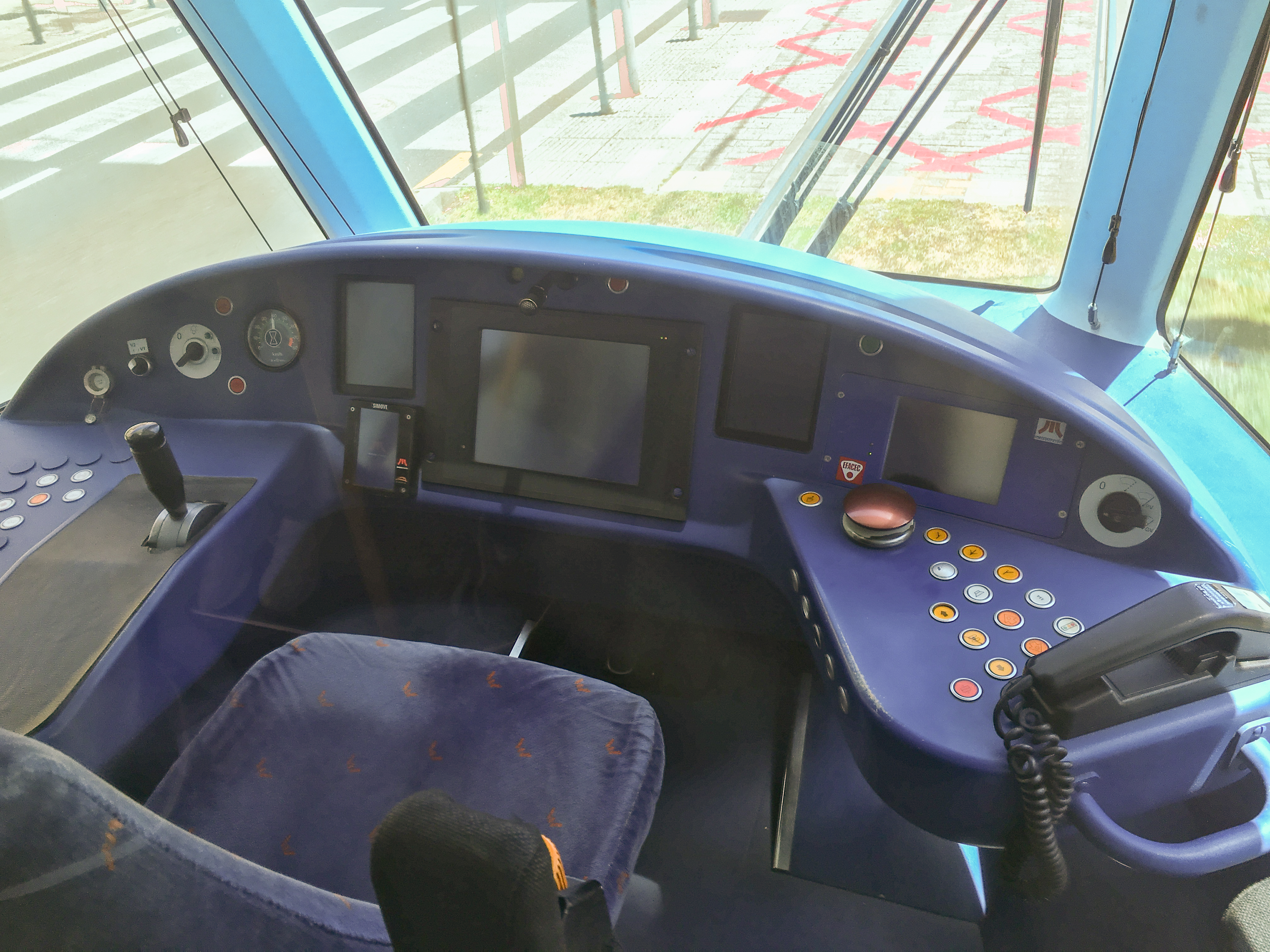 Tenerife Tram control area, Tenerife, Spain